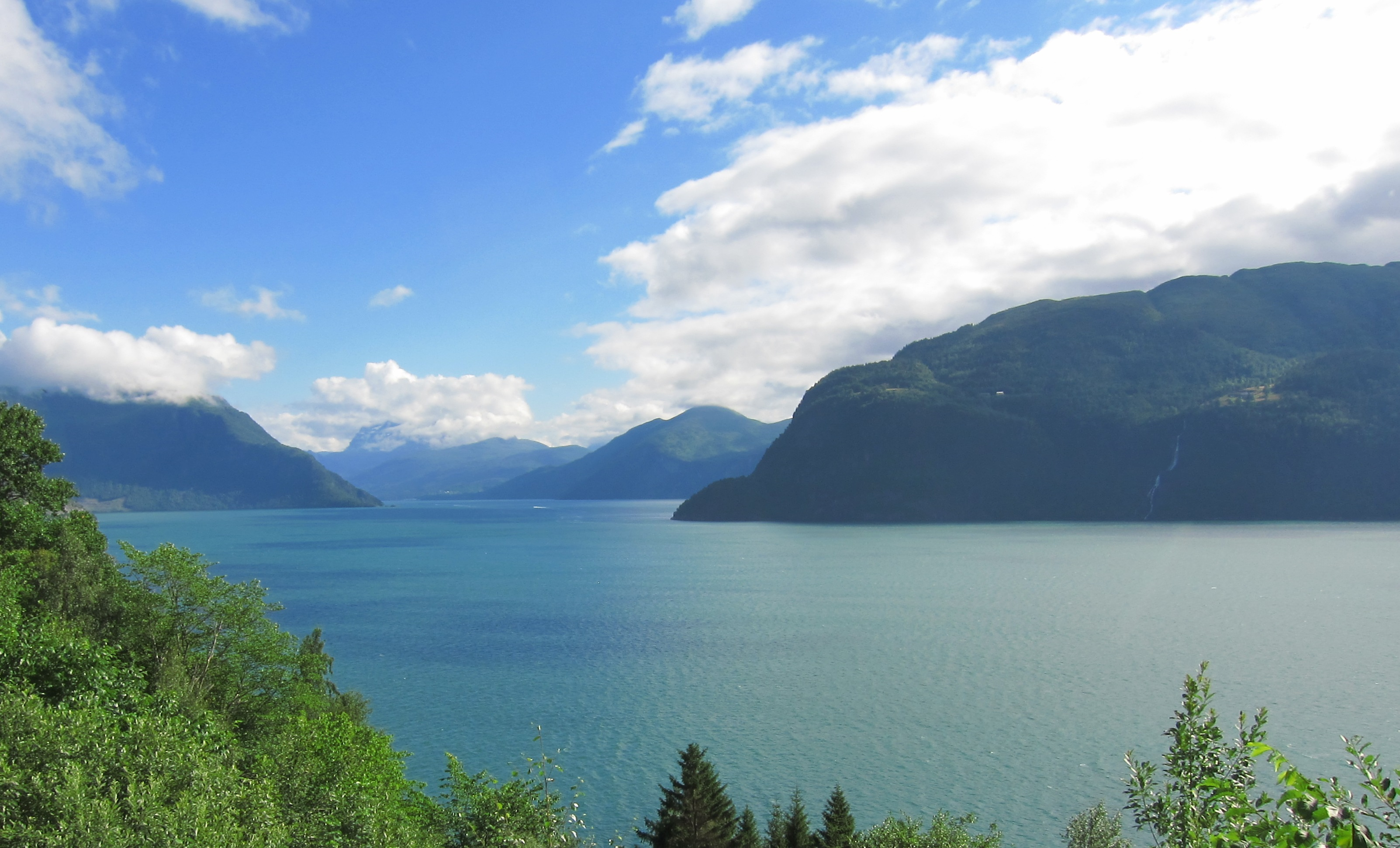 Storfjord, Sunnmøre, Norway, seen from Dyrkorn/Viset towards Stranda.